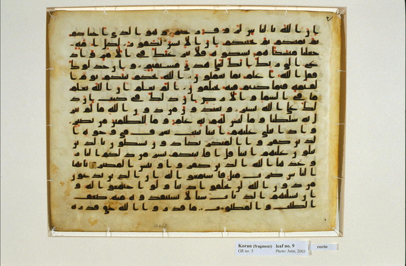 Verses 74-78 of the 22nd chapter of the Qur'an entitled Surat al-Hajj (The Pilgrimage), as well as the first eight verses of the 23rd chapter of the Qur'an entitled Surat al-Mu'minun (The Believers). The text is executed in Kufi script close to the E style typical of horizontal Qur'ans produced on parchment during the 9th-10th centuries.